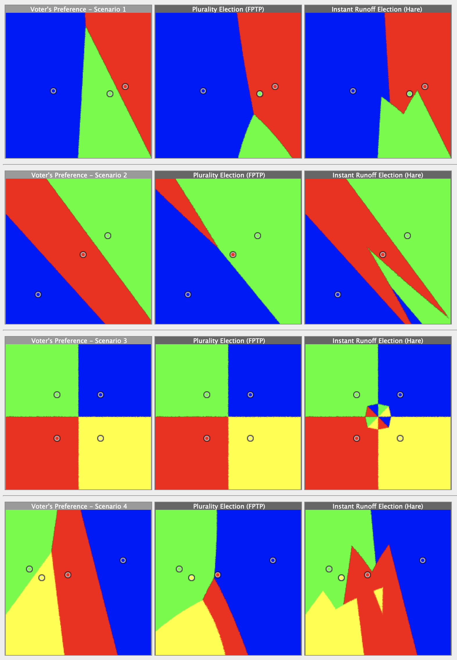 From source: "For each image, the positions of the candidates are fixed. There are three or four candidates, indicated by small circles filled in with the candidate's colour. Each point in the image corresponds to an election with the center of opinion located at that point. For every point, we simulate an entire election by scattering 200000 voters in a normal distribution around that point and collecting ballots from all of the voters; then we colour the point to indicate the winner." The first column shows voters' first choice candidate, the other two columns show the winner of an election where the center of opinion is at each point, under either Plurality rules or IRV rules (the first column also represents the winners of approval voting and Condorcet methods). While the first two columns feature generally convex shapes, showing monotonic behavior, the shapes in the column representing IRV are concave, and demonstrate a lack of monotonicity.